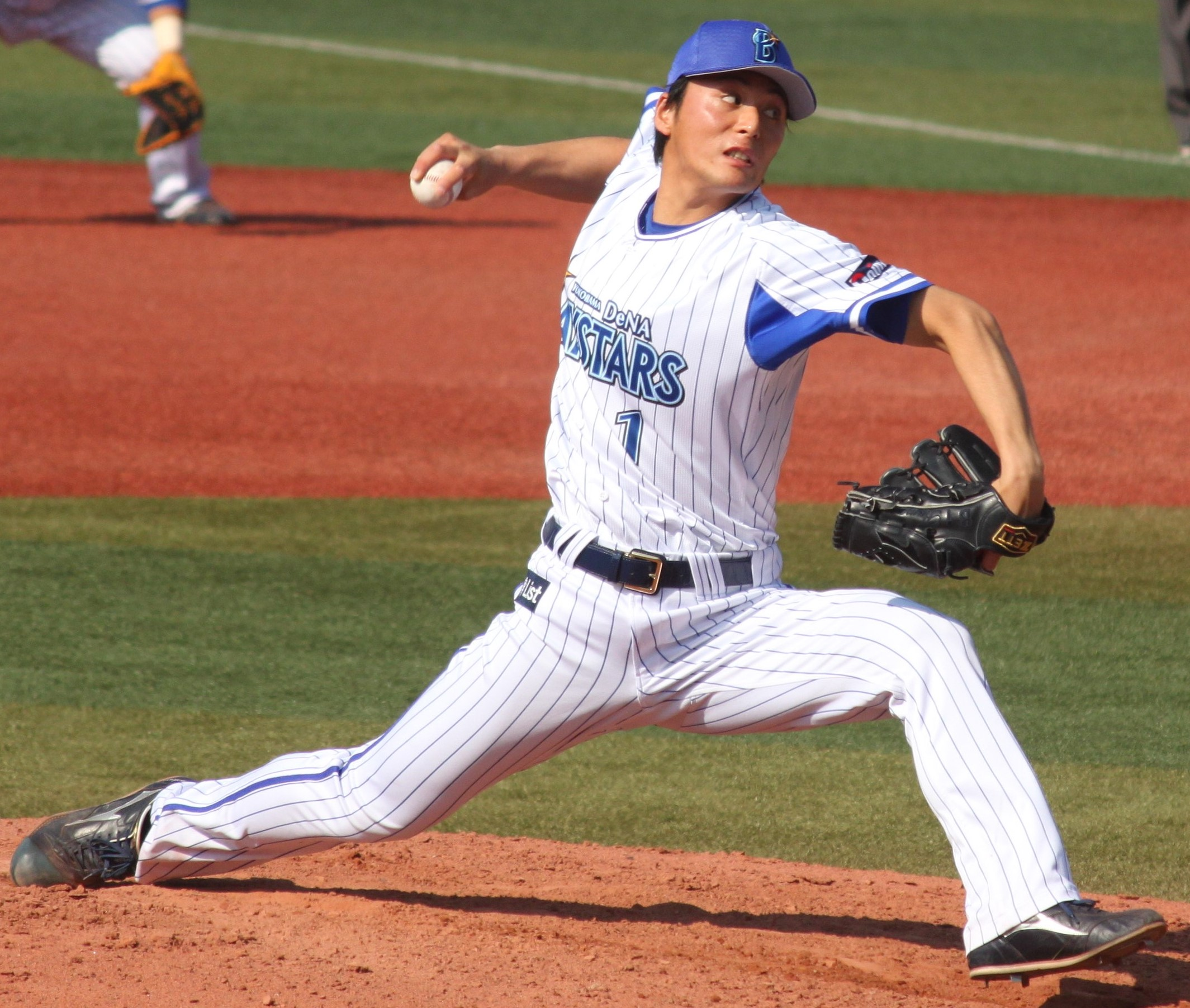 Kento Kumabara, pitcher of the Yokohama DeNA BayStars, at Yokohama Stadium